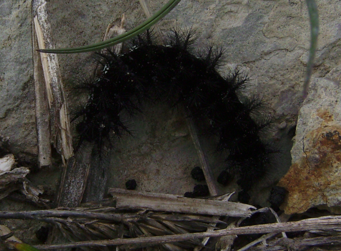 Euphydryas aurinia Castelltallat Catalonia